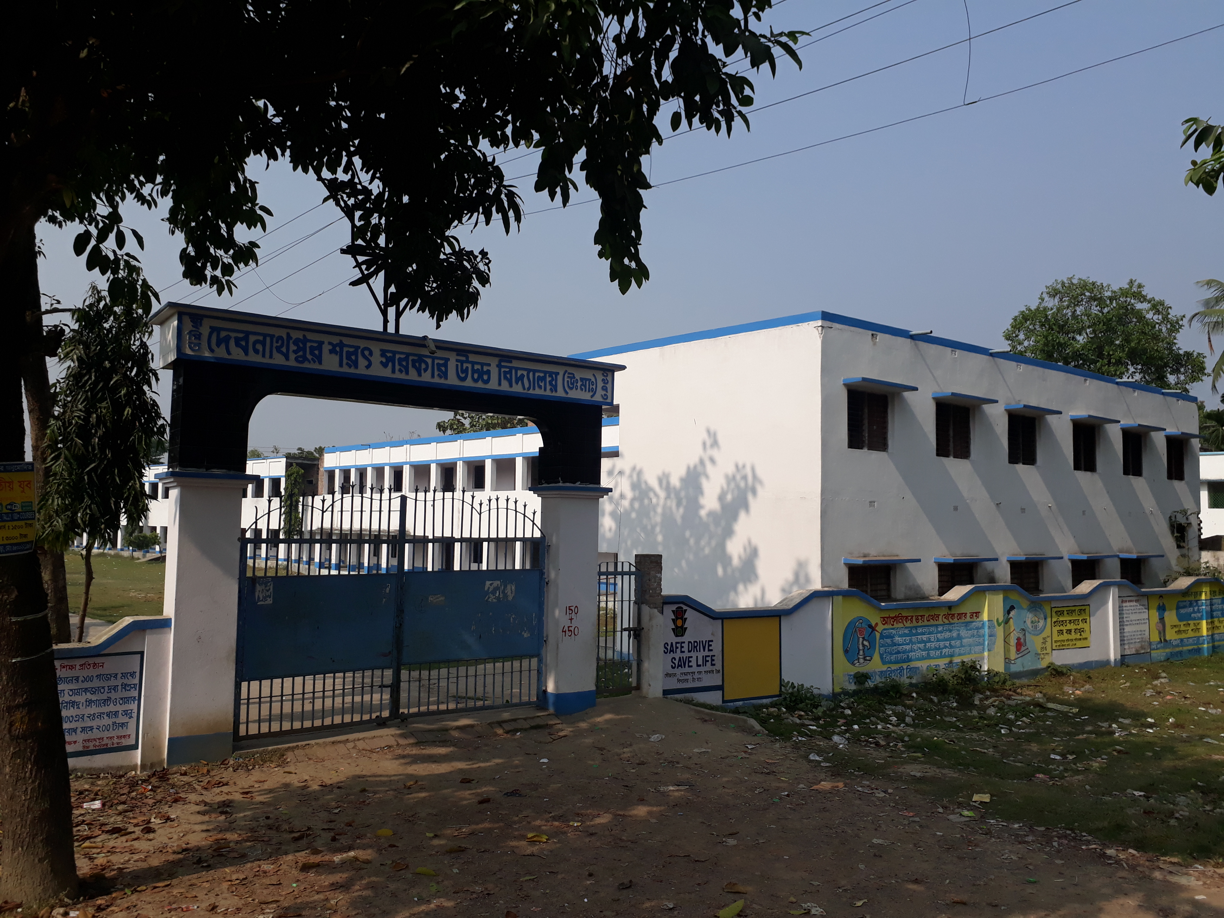 Debnathpur Sarat Sarkar High School in Nadia district